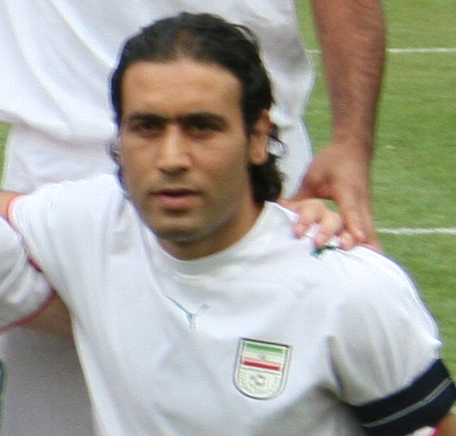 Mehdi Mahdavikia